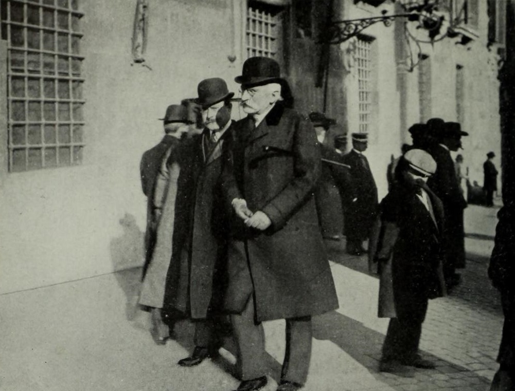 "Baron Sidney Sonnino."